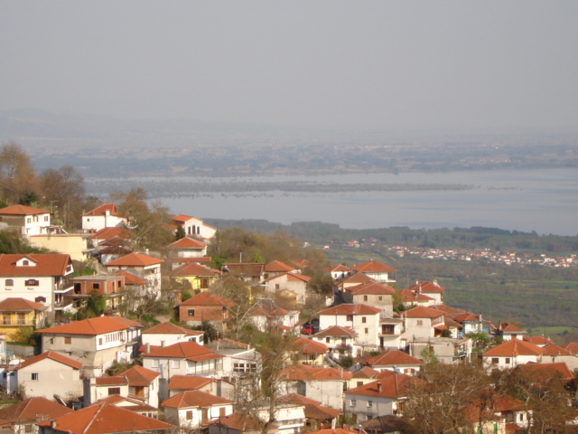 Ano Poroia, village in Serres prefecture, Greece, east side of the village